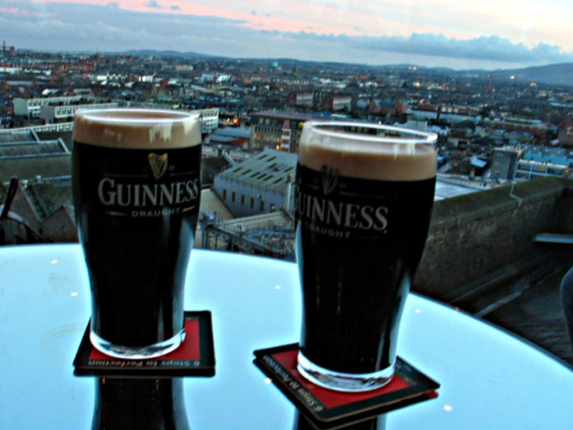 Guinness at factory